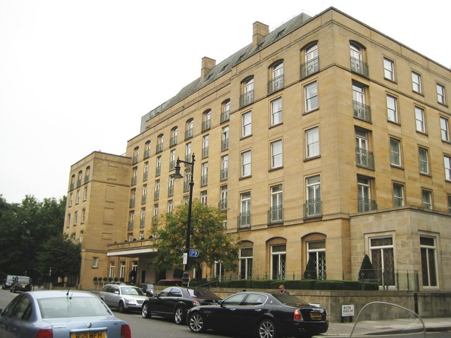 Knightsbridge: The Berkeley hotel, SW1 The Berkeley is in Wilton Place at its junction with Knightsbridge. It always used to be in Piccadilly but moved to this building in 1972. A suite will currently set you back a cool £1,700 plus VAT per night.